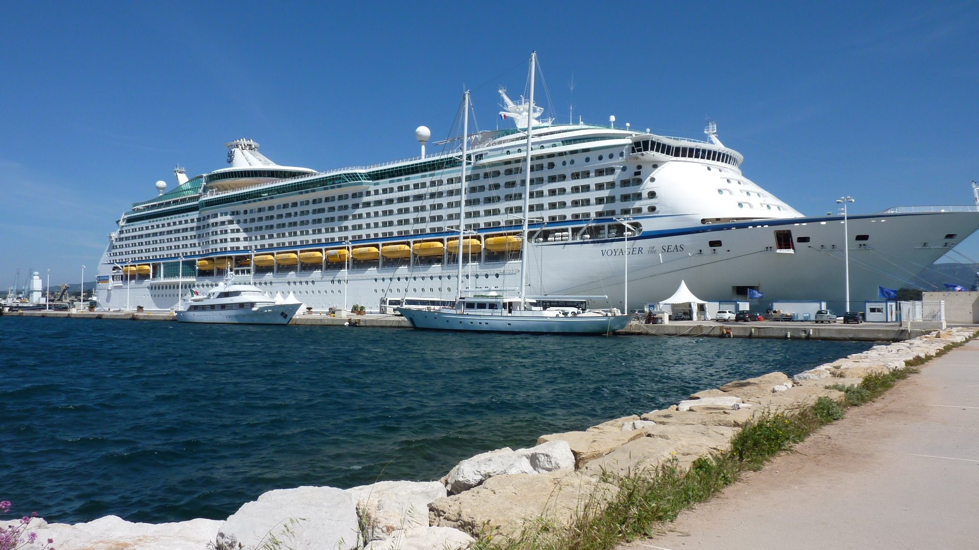 Voyager of the Seas in Toulon (France)